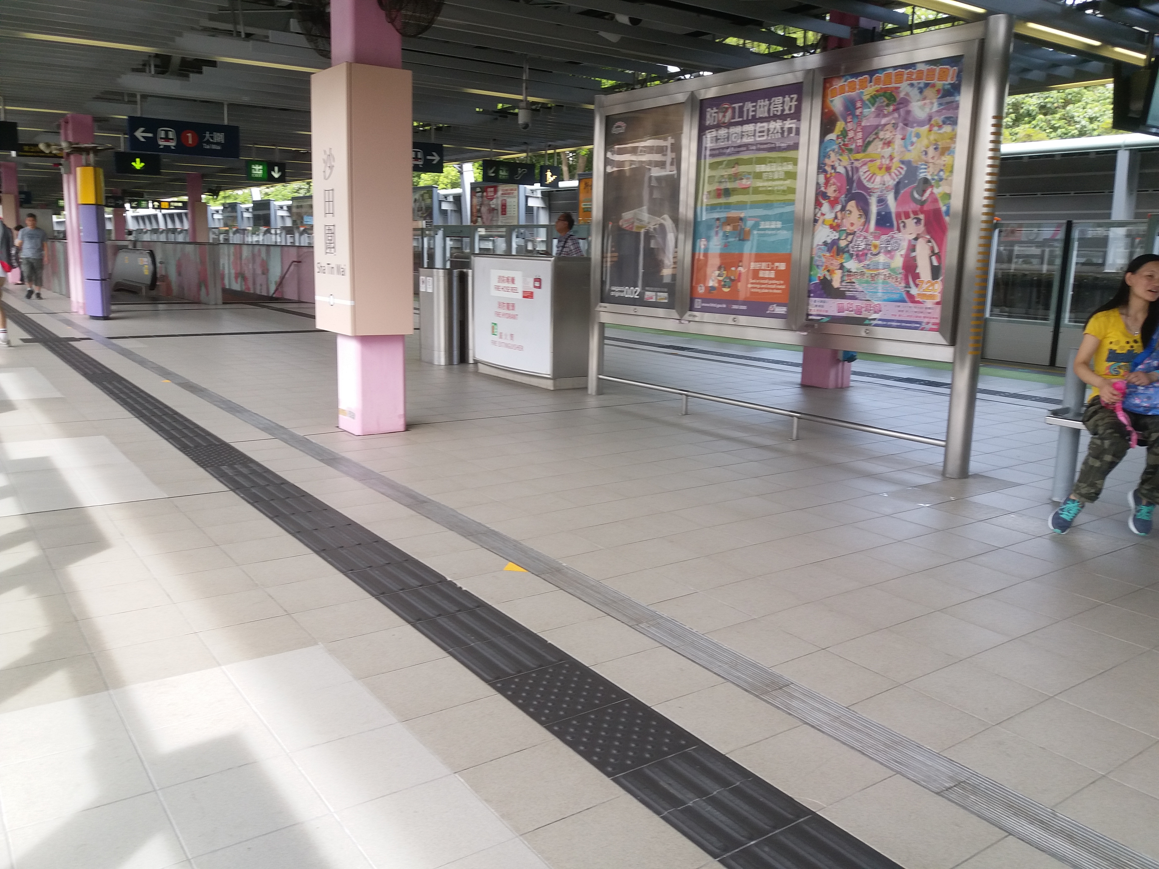 MTR MOL Sha Tin Wai Station old advertising stand